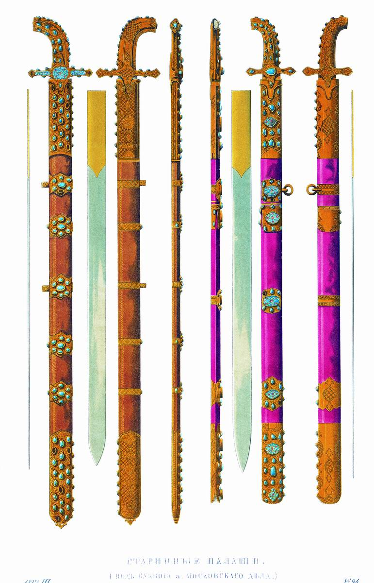 Moskow backswords, before 1687.